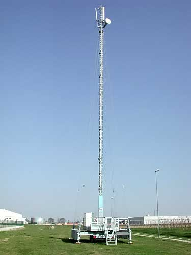 Photo of a mobile station with flanged pole